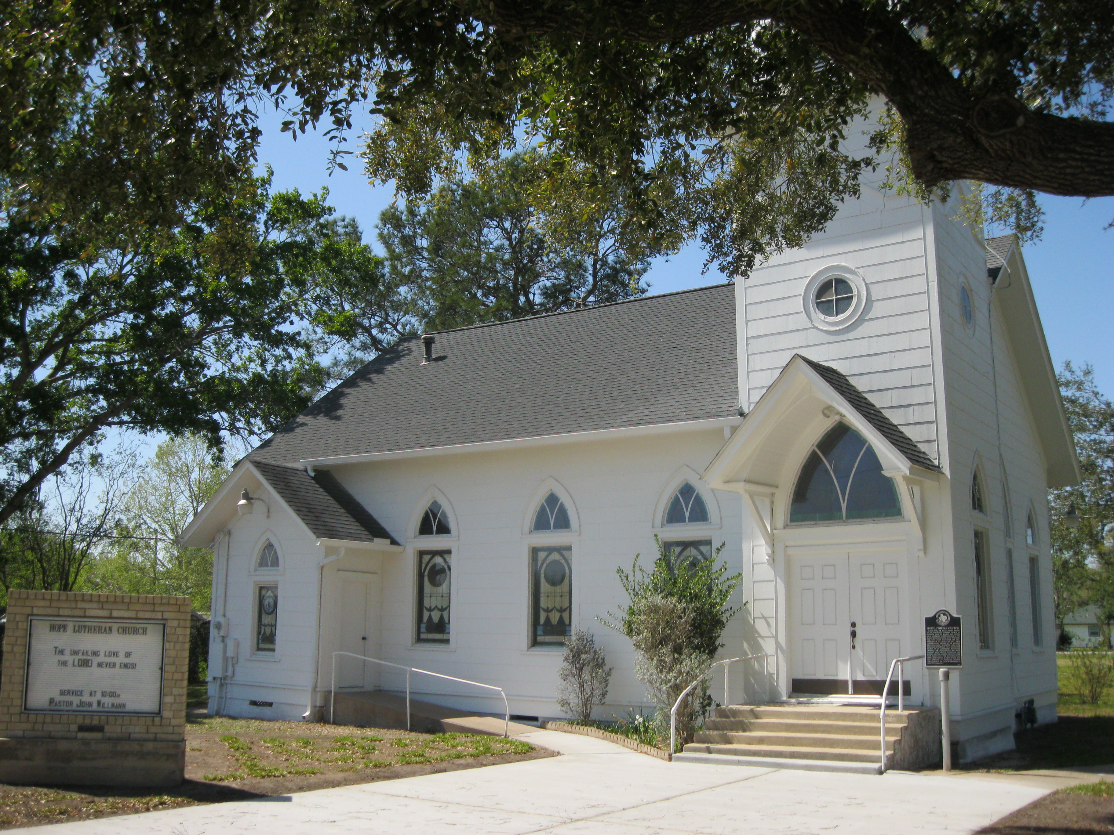 Hope Lutheran Church at Avenue C and N. 3rd Street in Beasley, Texas. There is an historical marker near the front door.